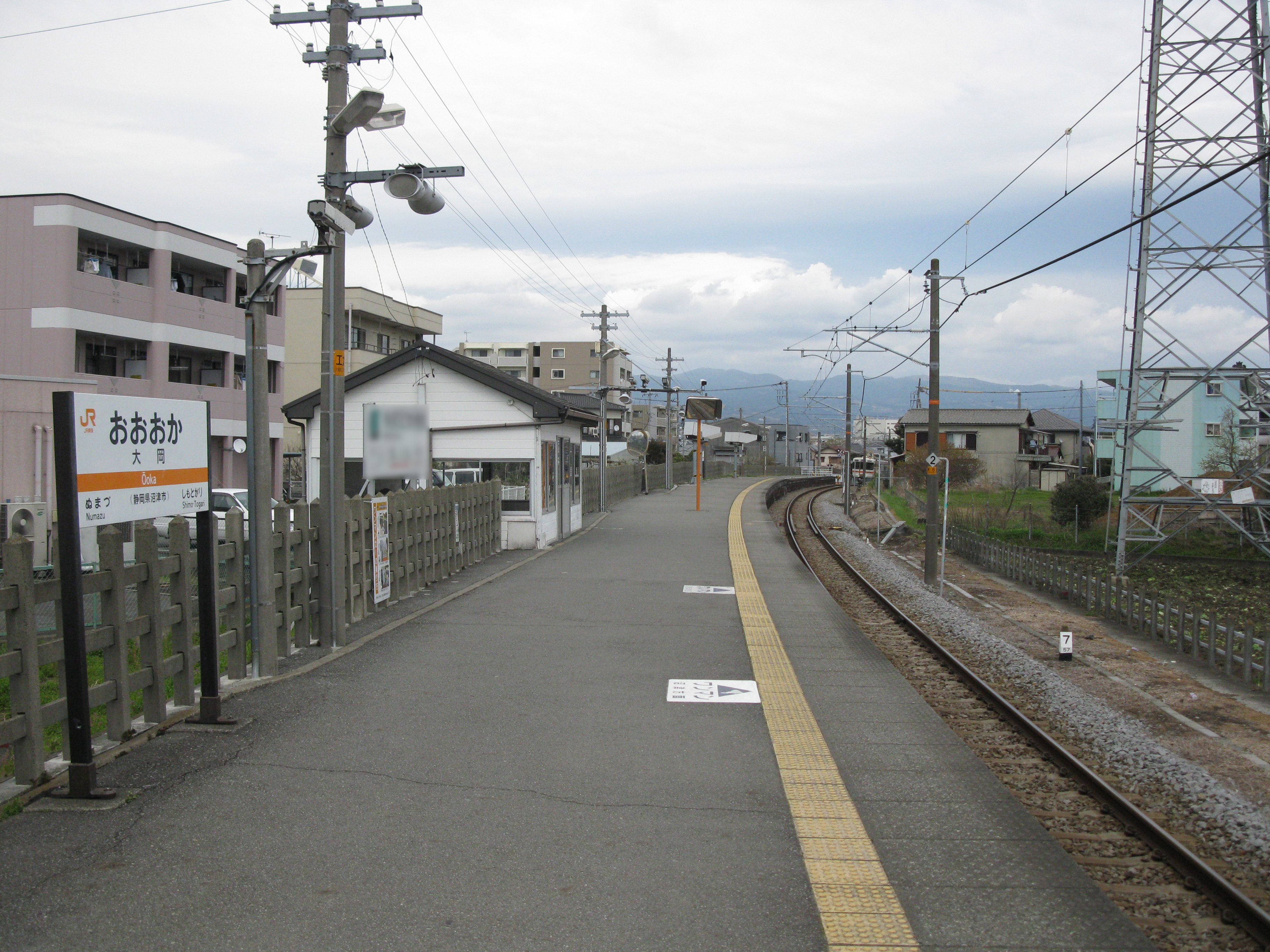 Ōoka Station platform (Central Japan Railway(JR Central) Gotemba Line)